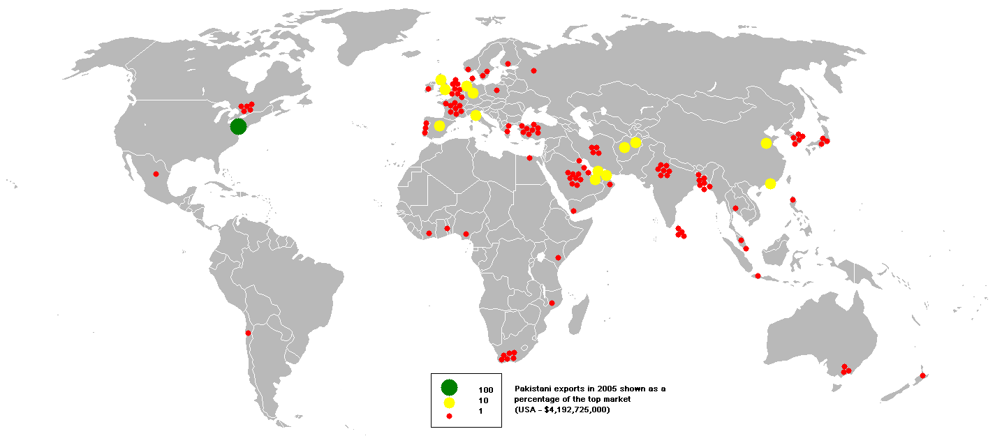 This bubble map shows the global distribution of Pakistani exports in 2005 as a percentage of the top market (USA - $4,192,725,000). This map is consistent with incomplete set of data too as long as the top market is known. It resolves the accessibility issues faced by colour-coded maps that may not be properly rendered in old computer screens. Data was extracted on 25th June 2007 from Based on :Image:BlankMap-World.png